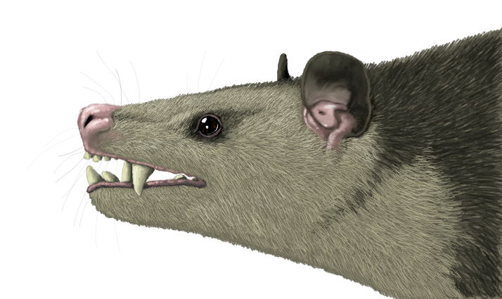 Life reconstruction of the early mammal Vincelestes neuquenianus.